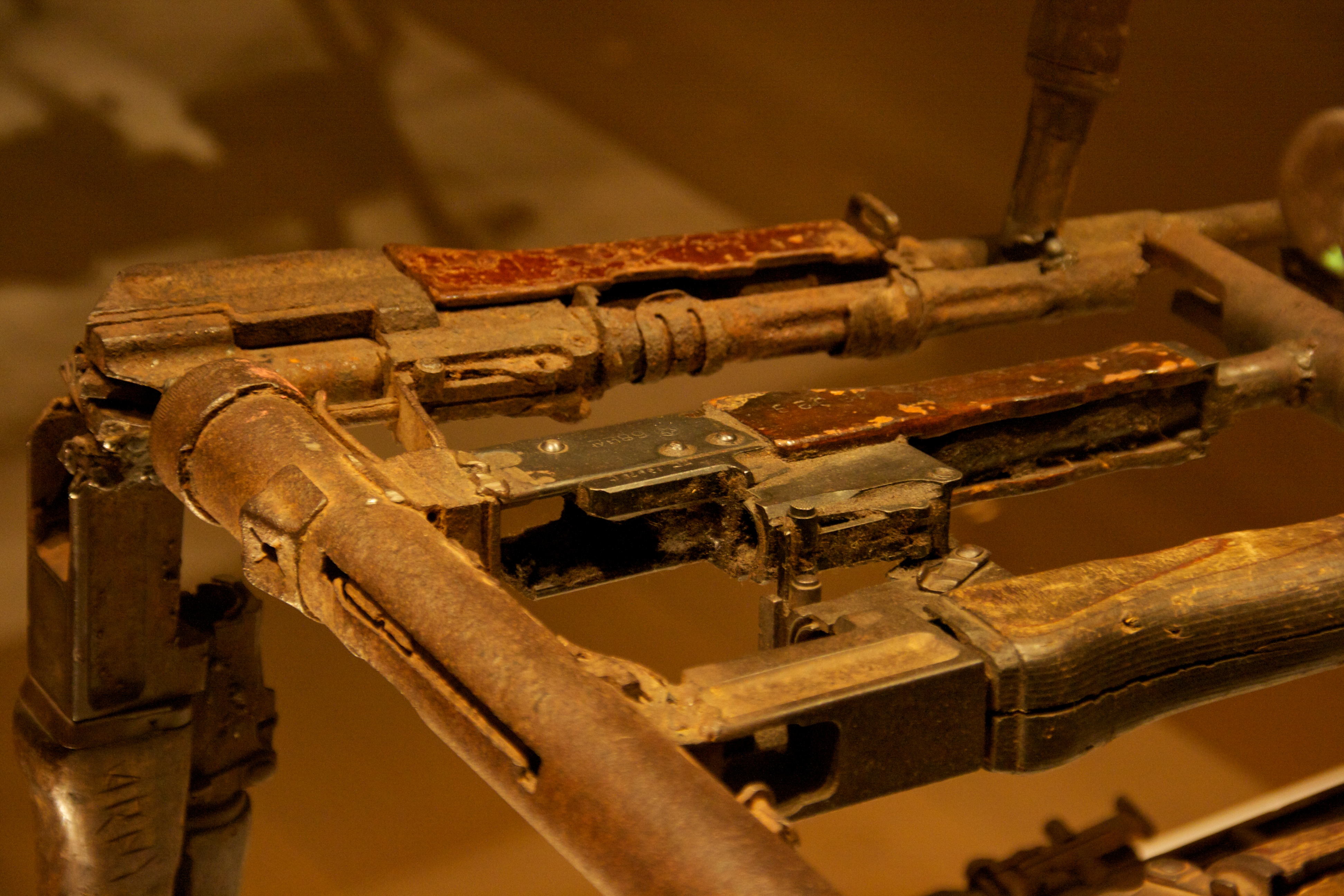 Throne of Weapons. Object 98 of 100. British Museum. AD 2001. Maputo, Mozambique. Metal, wood, plastic. 2002,01.1